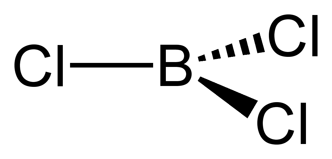 Structural formula of boron trichloride, BCl3, view side-on like the 3D image below: Structure drawn in ChemBioDraw Ultra 12.0.